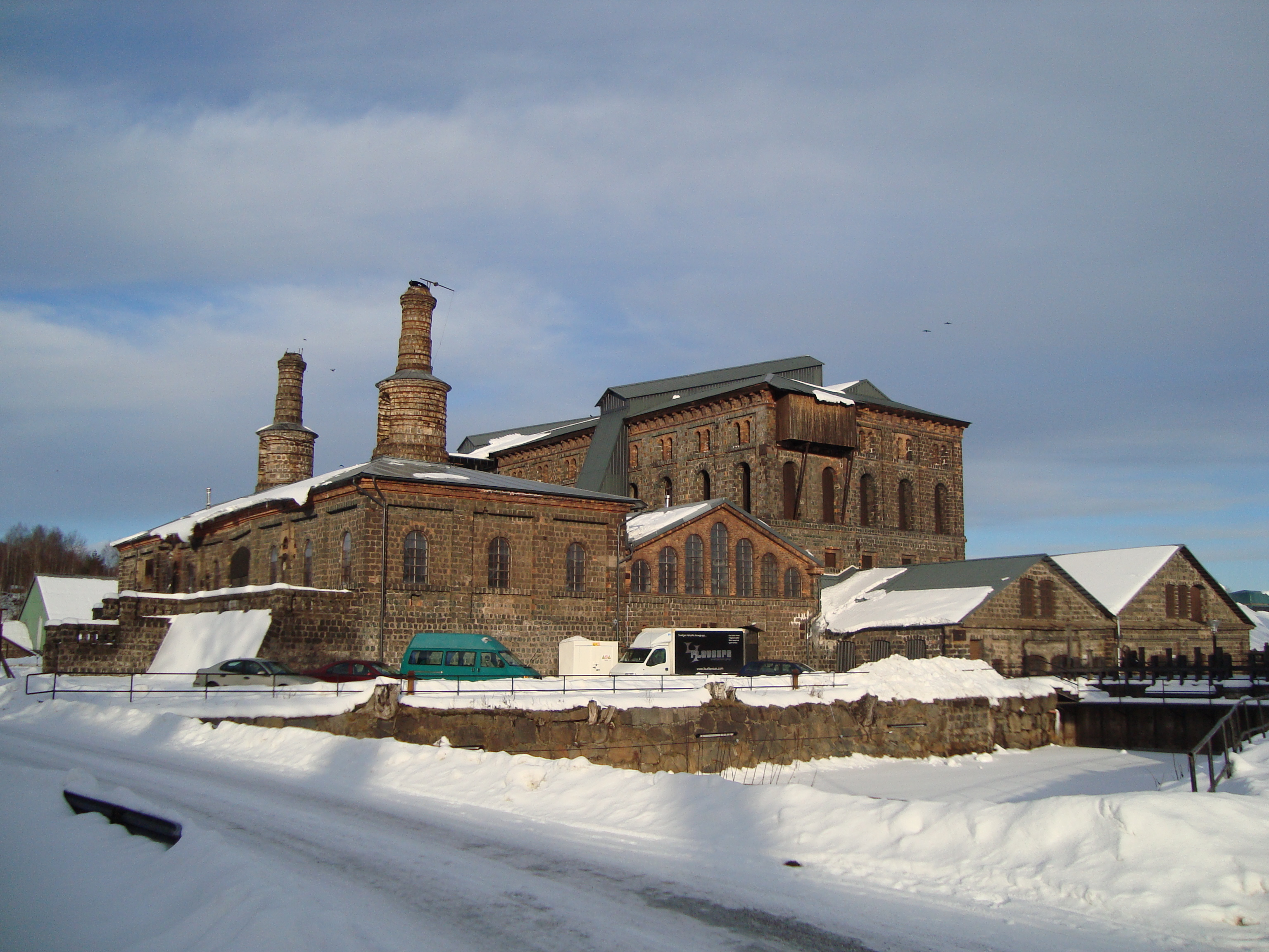 Old industrial site Koppardalen, Avesta, Sweden